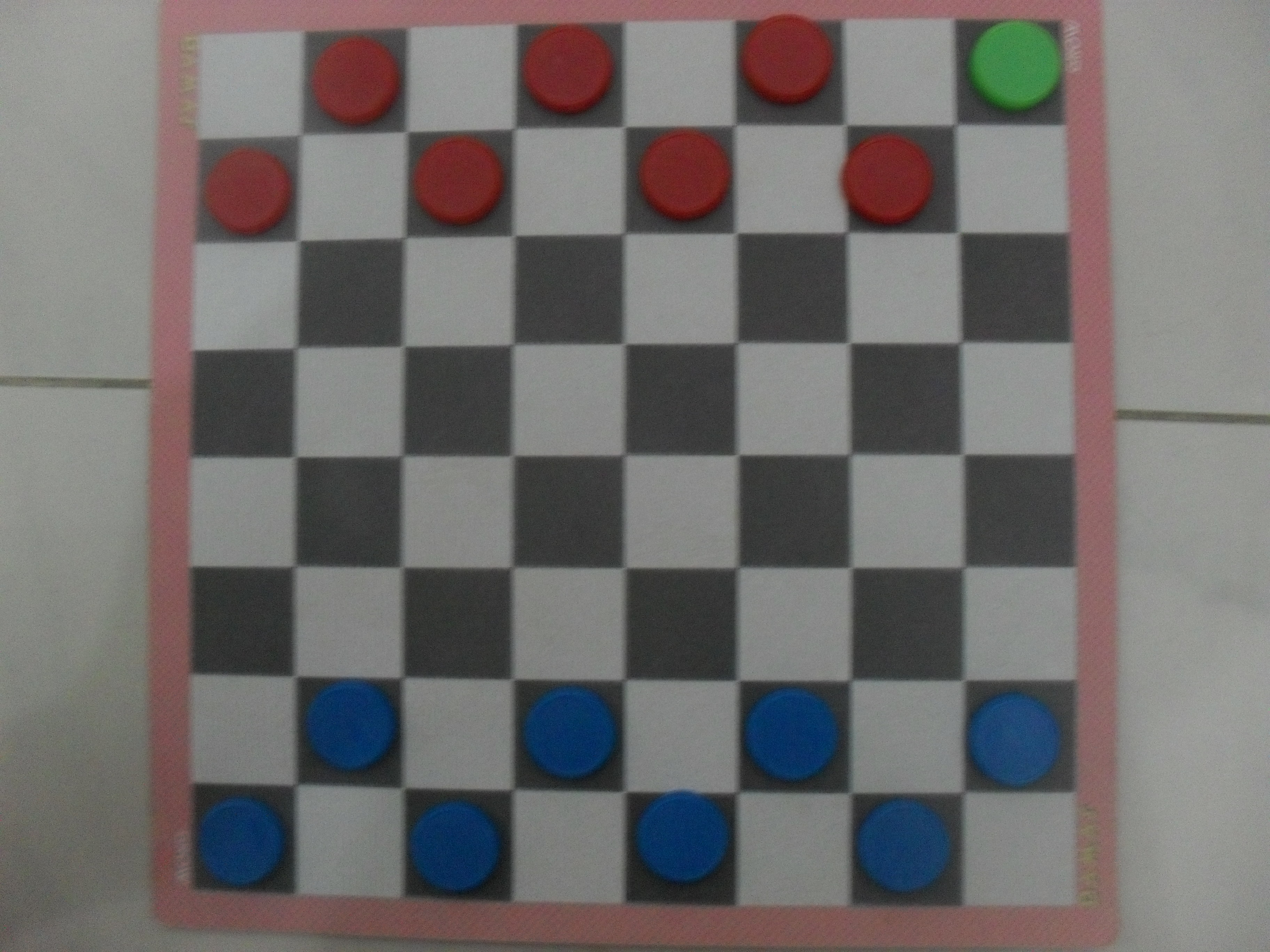 Checkerboard